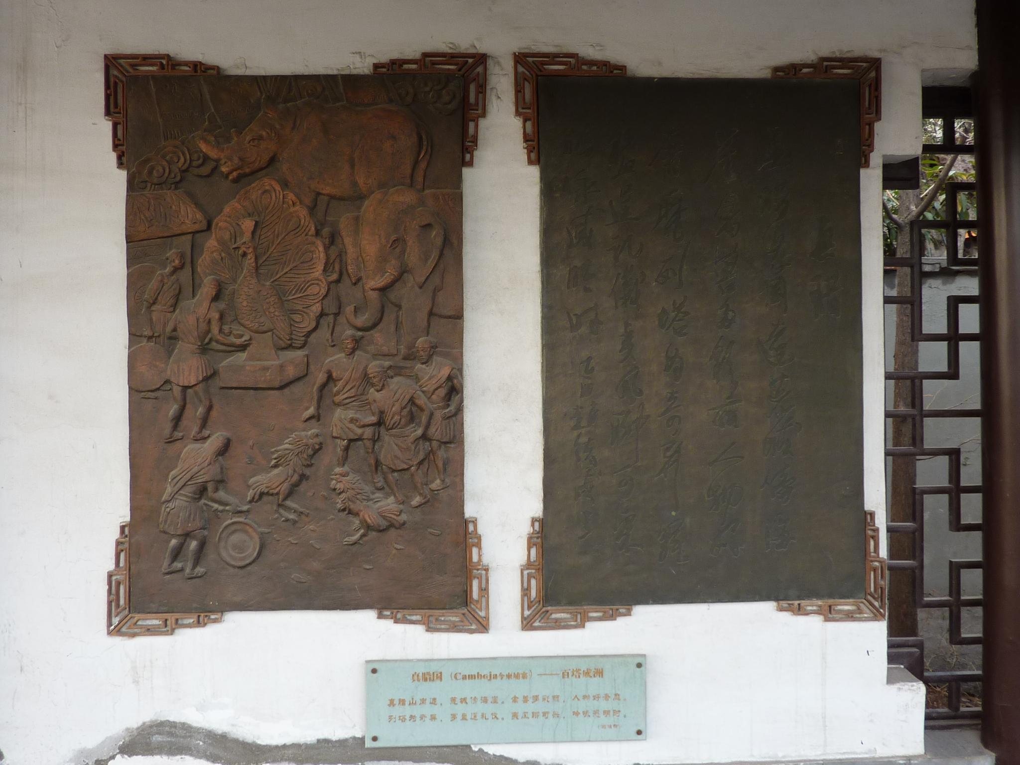 Fragments of the relief running along the northern wall of the Treasure Boat Shipyard Park, showing the route of Zheng He's voyages and various events along it.